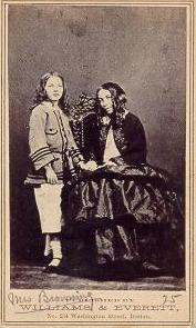 "Silsbee, Case & Co., Boston. Published by Williams & Everett. Elizabeth Barrett Browning (1806-1861) and Robert Wiedemann Barrett (1849-1912)"